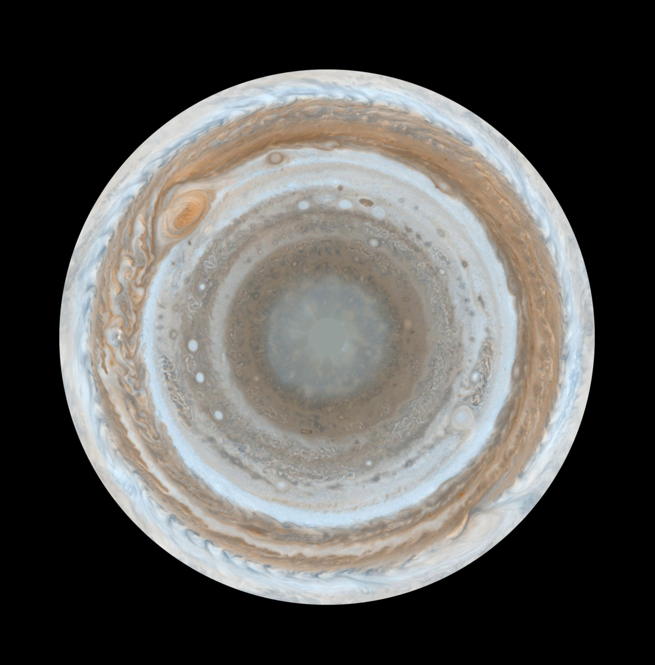 This map of Jupiter is the most detailed global color map of the planet ever produced. The round map is a polar stereographic projection that shows the south pole in the center of the map and the equator at the edge. It was constructed from images taken by Cassini on Dec. 11 and 12, 2000, as the spacecraft neared Jupiter during a flyby on its way to Saturn. The map shows a variety of colorful cloud features, including parallel reddish-brown and white bands, the Great Red Spot, multi-lobed chaotic regions, white ovals and many small vortices. Many clouds appear in streaks and waves due to continual stretching and folding by Jupiter's winds and turbulence. The bluish-gray features along the north edge of the central bright band are equatorial "hot spots," meteorological systems such as the one entered by NASA's Galileo probe. Small bright spots within the orange band north of the equator are lightning-bearing thunderstorms. The polar region shown here is less clearly visible because Cassini viewed it at an angle and through thicker atmospheric haze.